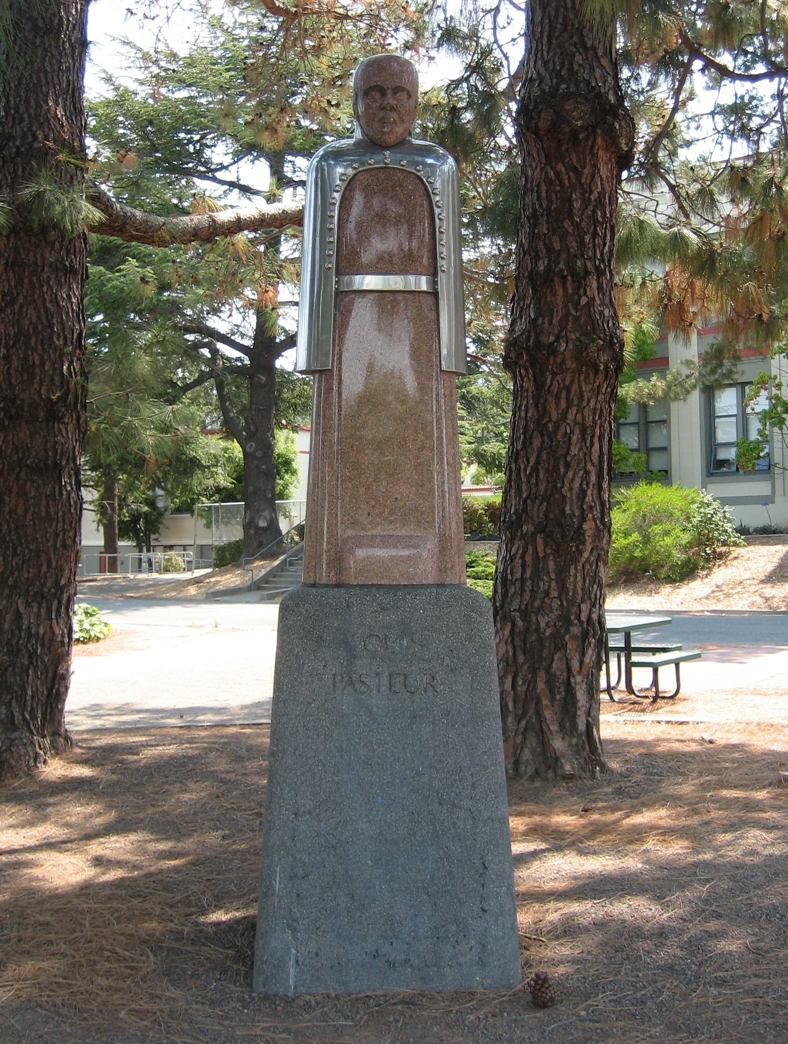 Digital photograph of Louis Pasteur statue, San Rafael High School